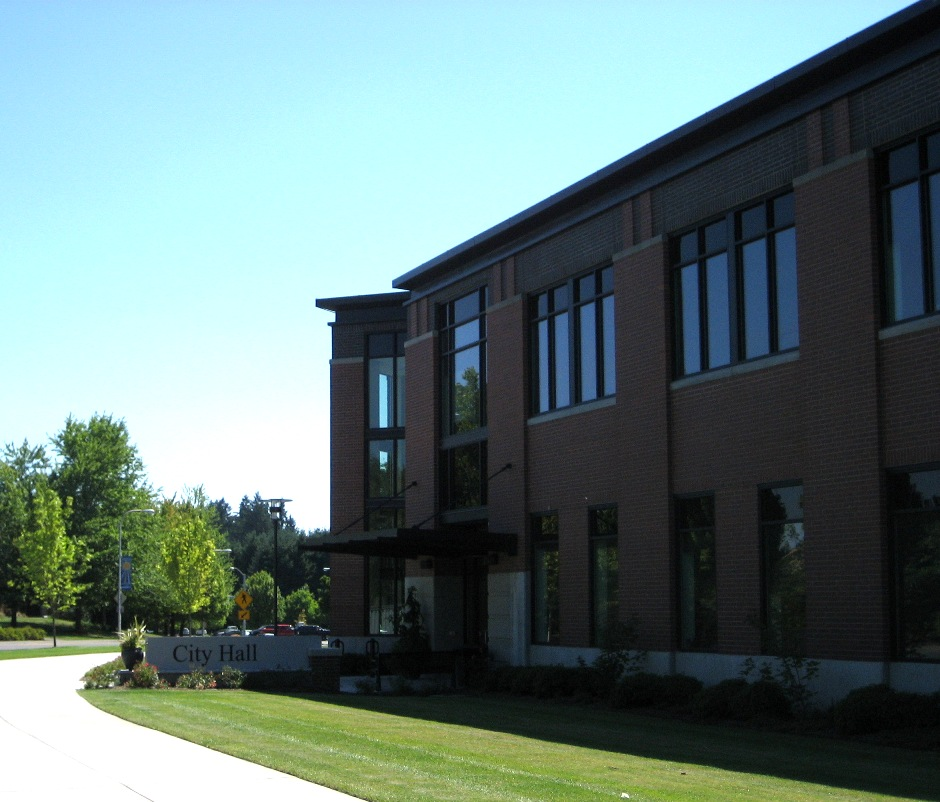 City hall of Wilsonville